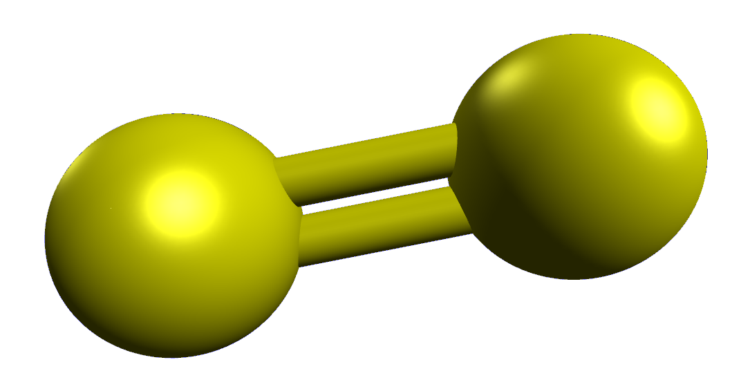 Ball and stick model of disulfur molecule